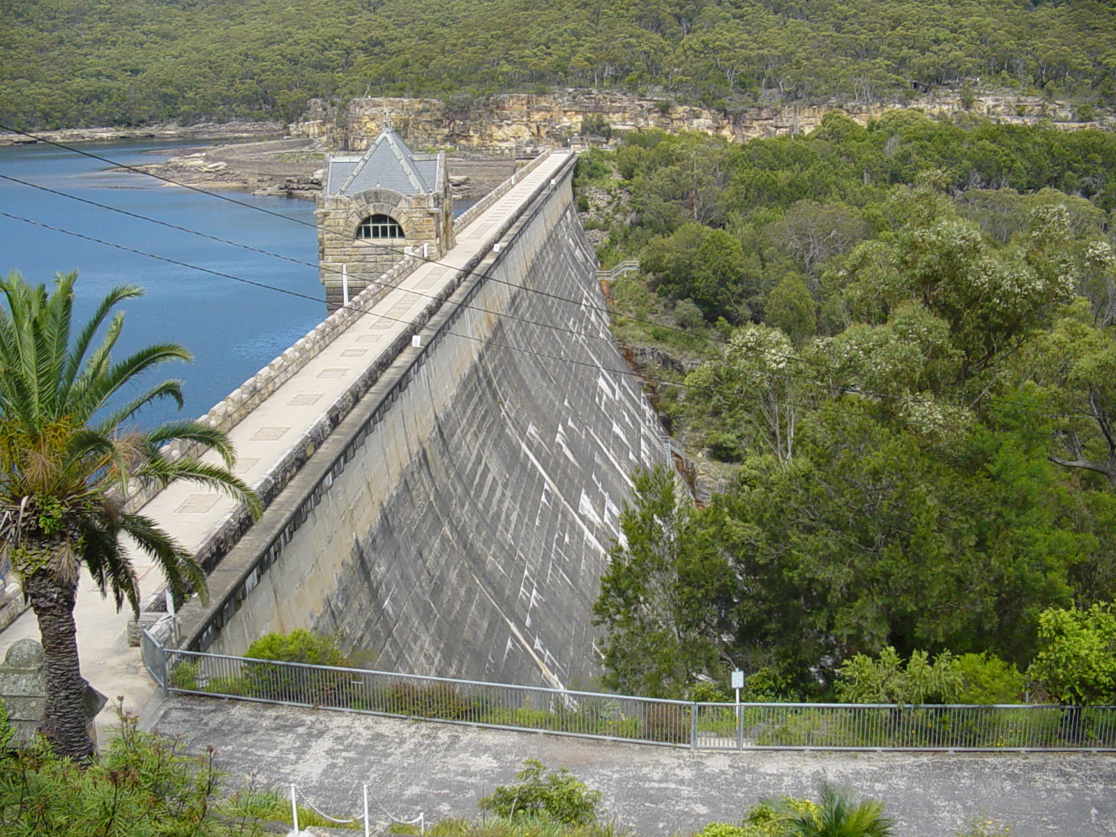 A photograph of Cataract Dam on the 27th of December 2004 by Knows The spillway can be seen in the far distance. Uploaded for the Upper Nepean Scheme article.